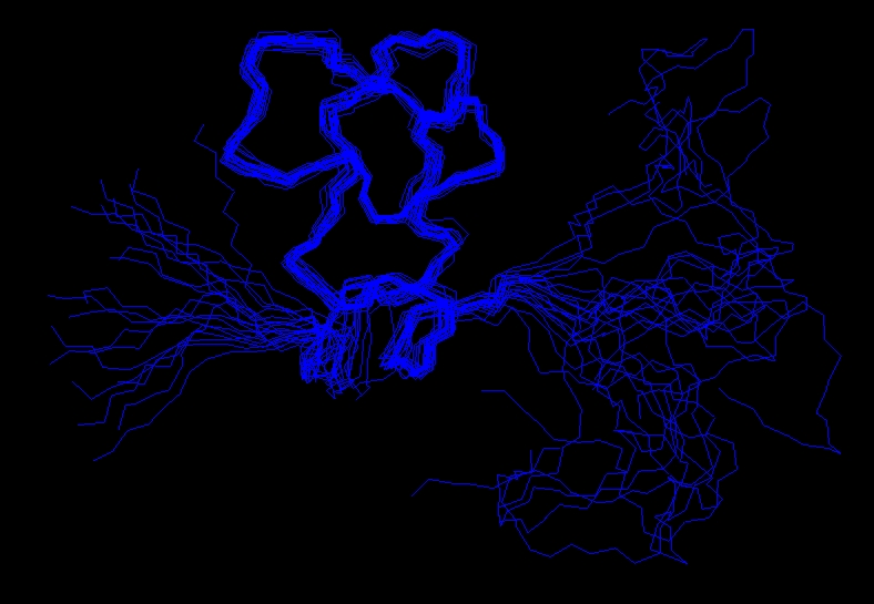 Generated from PDB file 1SSU. It is the SMB domain of vitronectin.